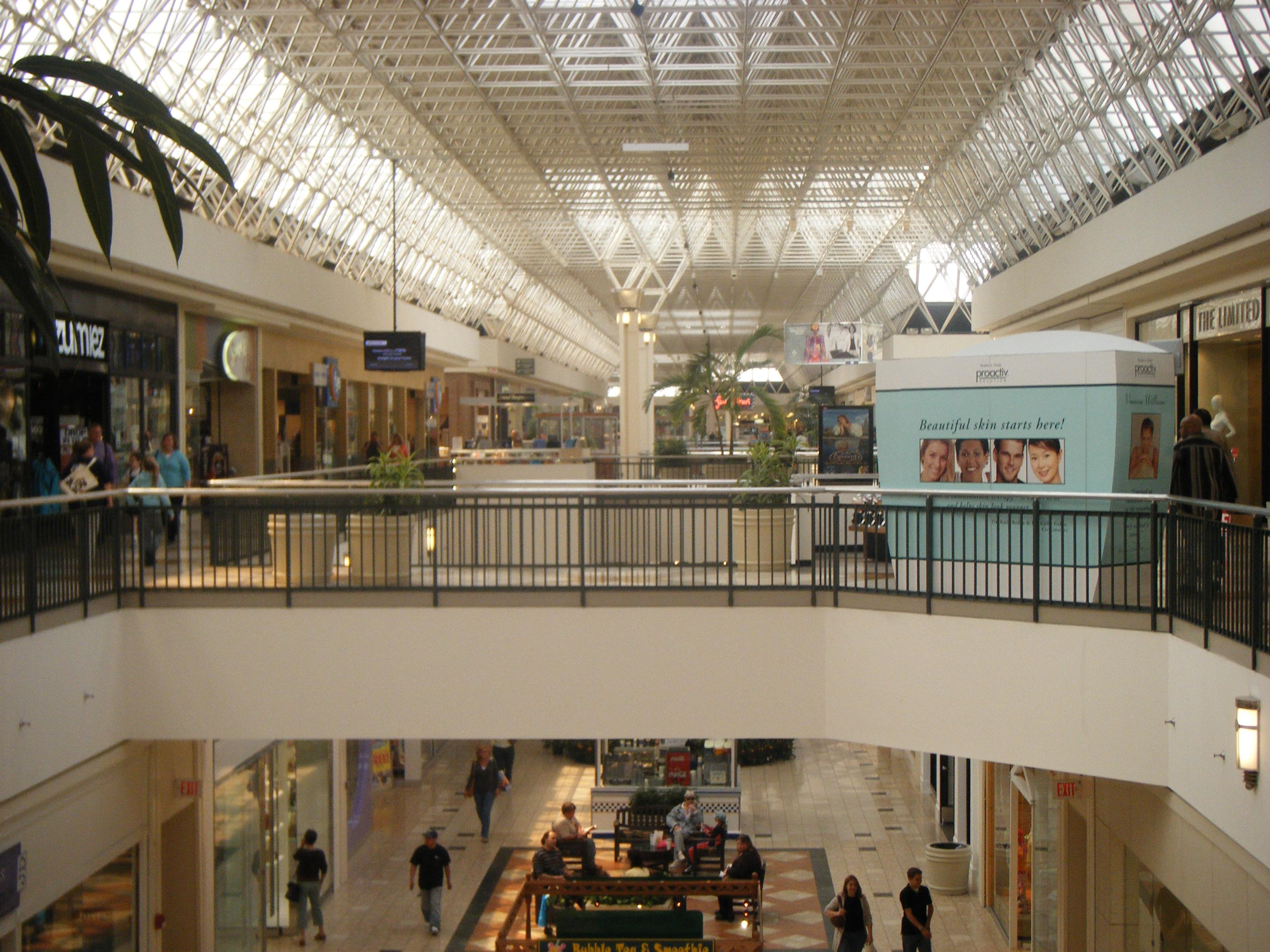 A view of the Oxford Valley Mall in Langhorne, Pennsylvania, looking from Macy's on the second floor